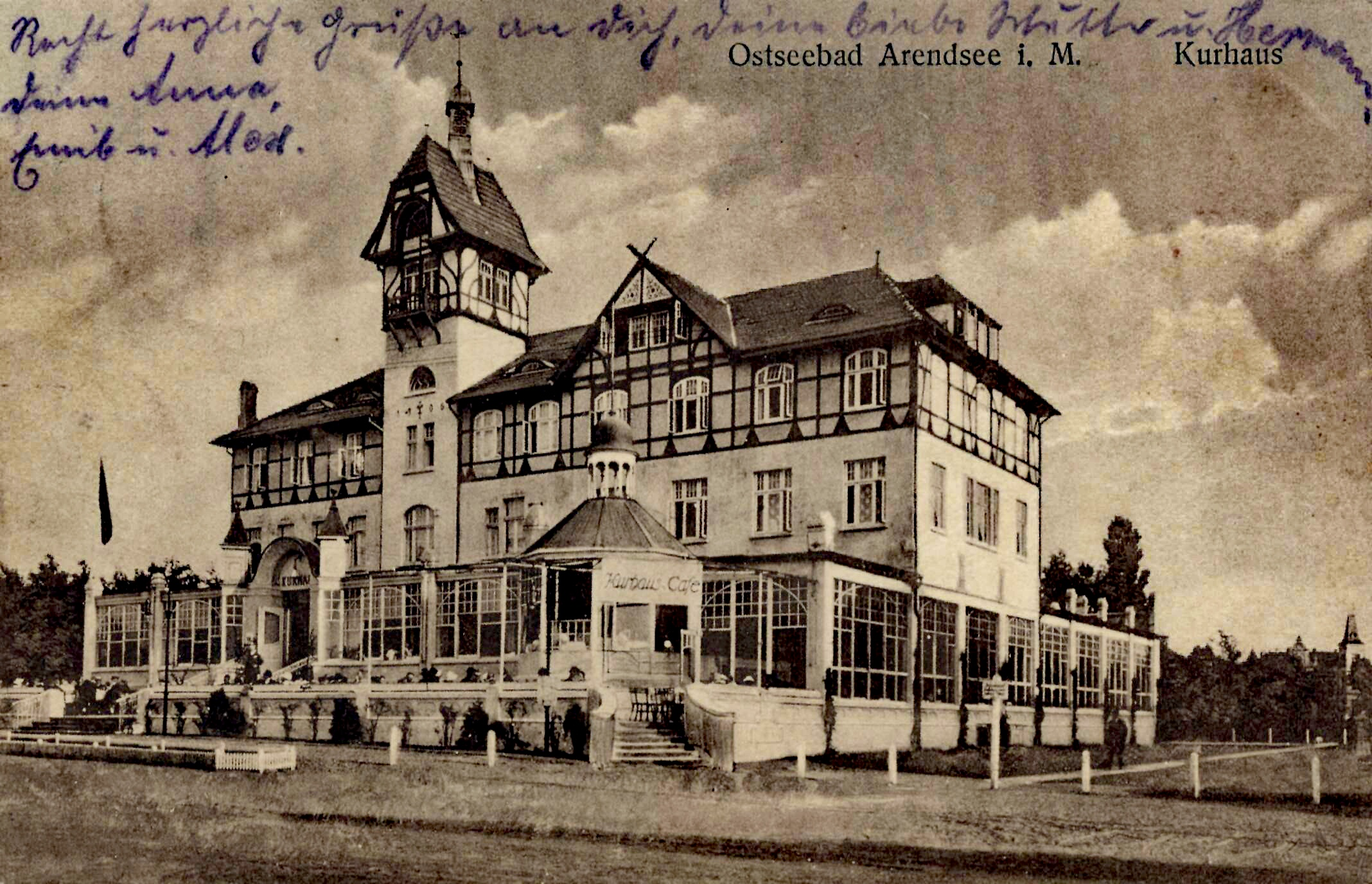 One of the old spa hotels in the seaside resort of Kühlungsborn. It was built in 1905 and the main landmark of the town. In 1994, the commune decided to demolish the old building - officially because of the "bad structural condition". This move gone along with fierce protests by the inhabitants. Today, there is a reminiscent new built hotel complex, that strongly follows the seaside-resort architecture of its historical forerunner.